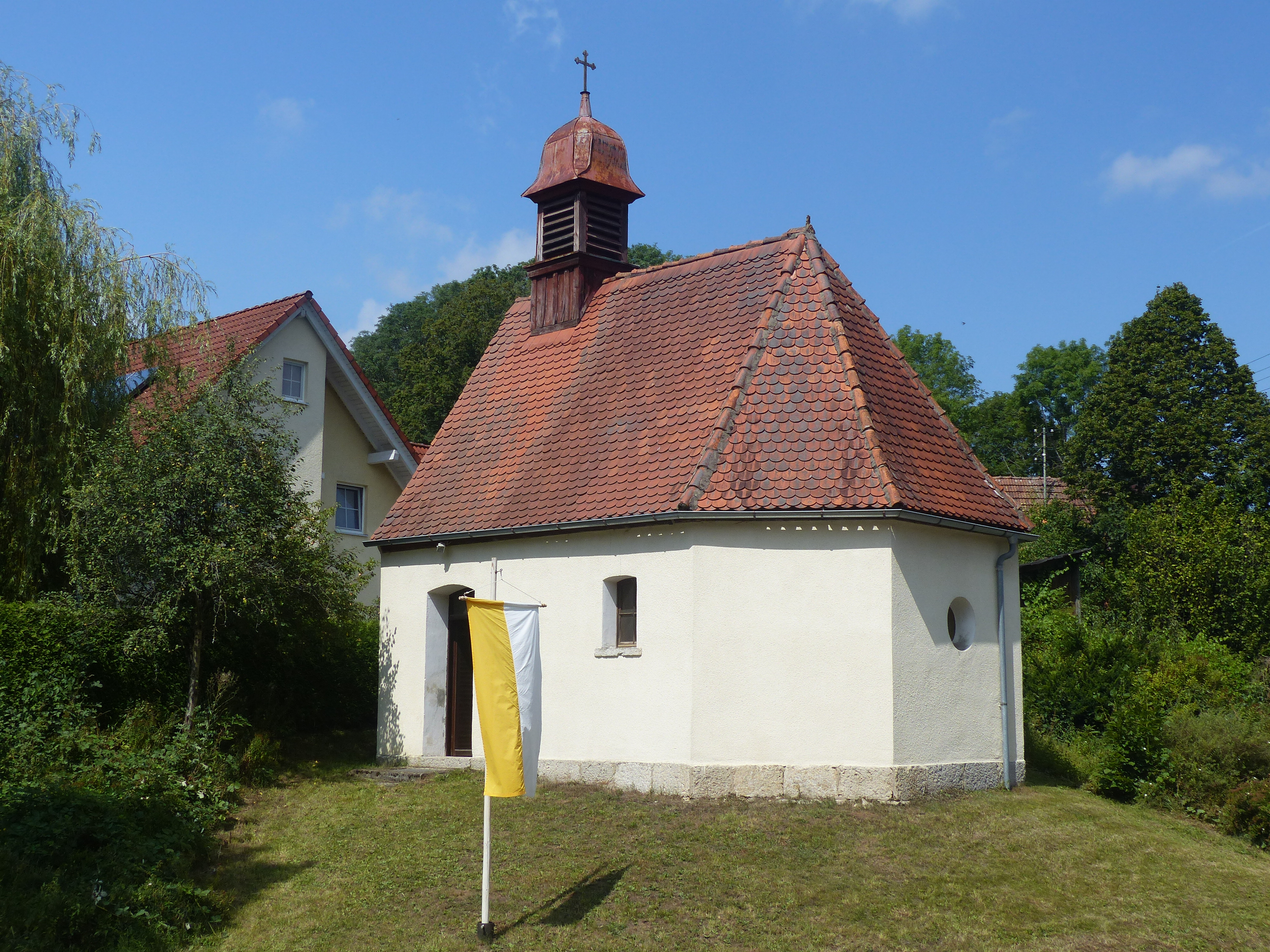 A chapel in the village Hundsdorf, a district of the municipality of Obertrubach.